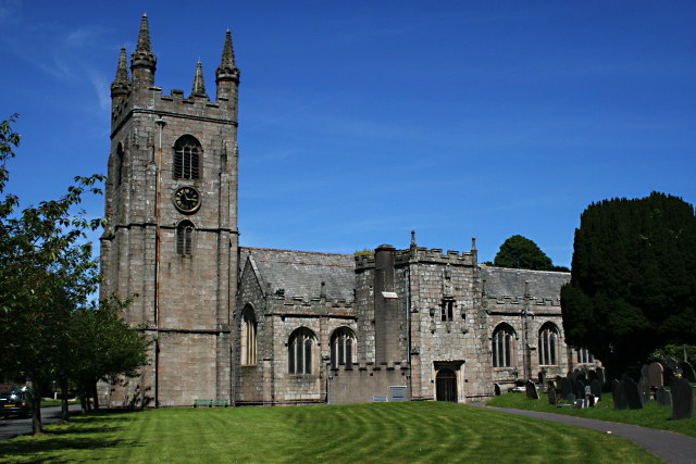 Plympton St Mary Church